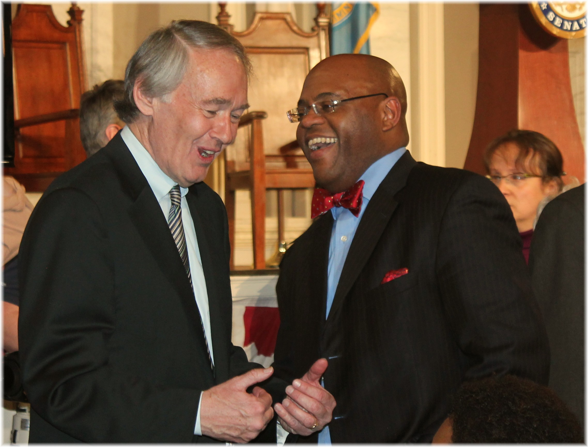 U.S. Representative Ed Markey and incoming U.S. Senator William "Mo" Cowan at a farewell gathering for outgoing U.S. Senator John Kerry. December 31, 2013.